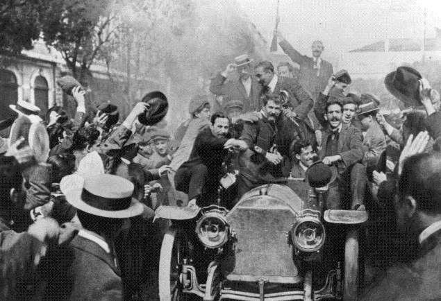 The rebels on the street Liberdade (Lisbon) October 5, 1910